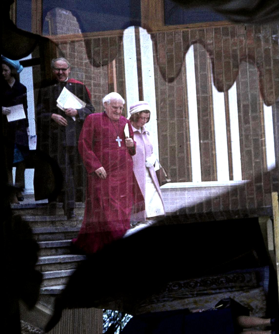 Archbishop of Canterbury Michael Ramsay and Princess Alexandra on the steps of the Church Army Chapel, Blackheath, London, England, at its opening on 6 May 1965. The chapel was designed by E.T. Spashett for Austin Vernon & Partners. The slide is from the architect's archives, and this clip from the slide formed part of an inadvertent double-exposure. The curved lines at the top are the fringe of the marquee where the architect had to wait during the consecration.